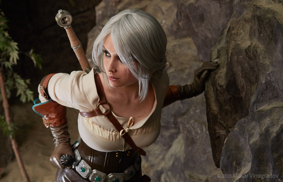 Cirilla cosplay (The Witcher 3: Wild Hunt). Photographer: Makar Vinogradov. Cosplayer: Galina Zhukovskaya.